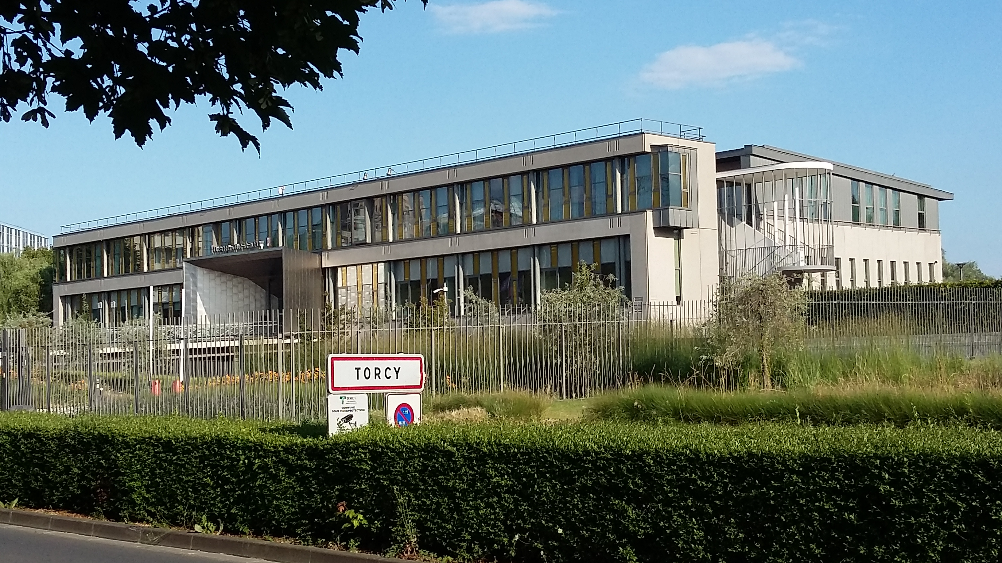 sub-Préfecture of Torcy (France)